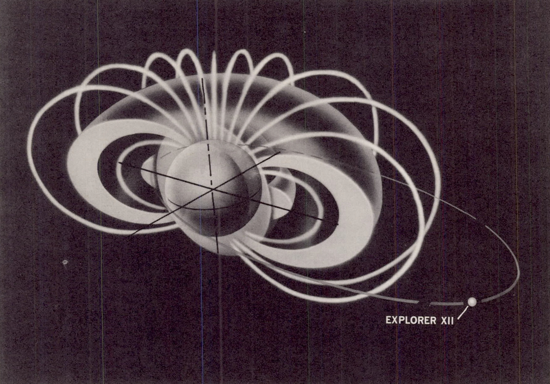 "Highly elliptical orbit of Explorer XII traversing both inner and outer Van Allen radiation beIts" Figure 9 of the D-1340 Technical Note of NASA.